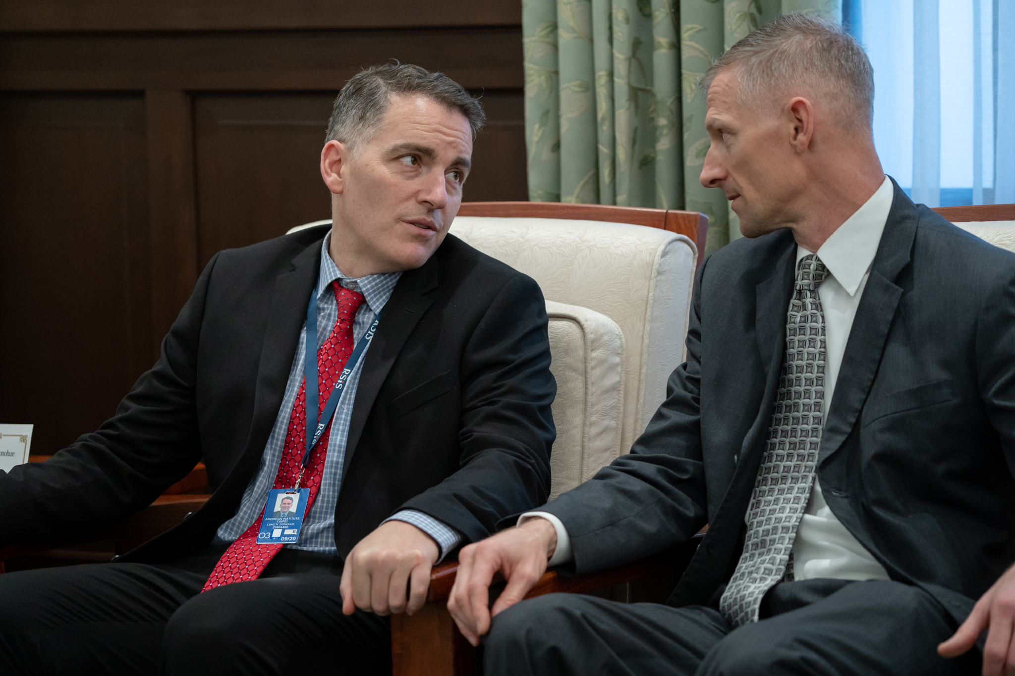 Official Photo by Wang Yu Ching / Office of the President 中文（台灣）: 06.05 總統接見美國前空軍教育暨訓練司令部萊斯退役上將